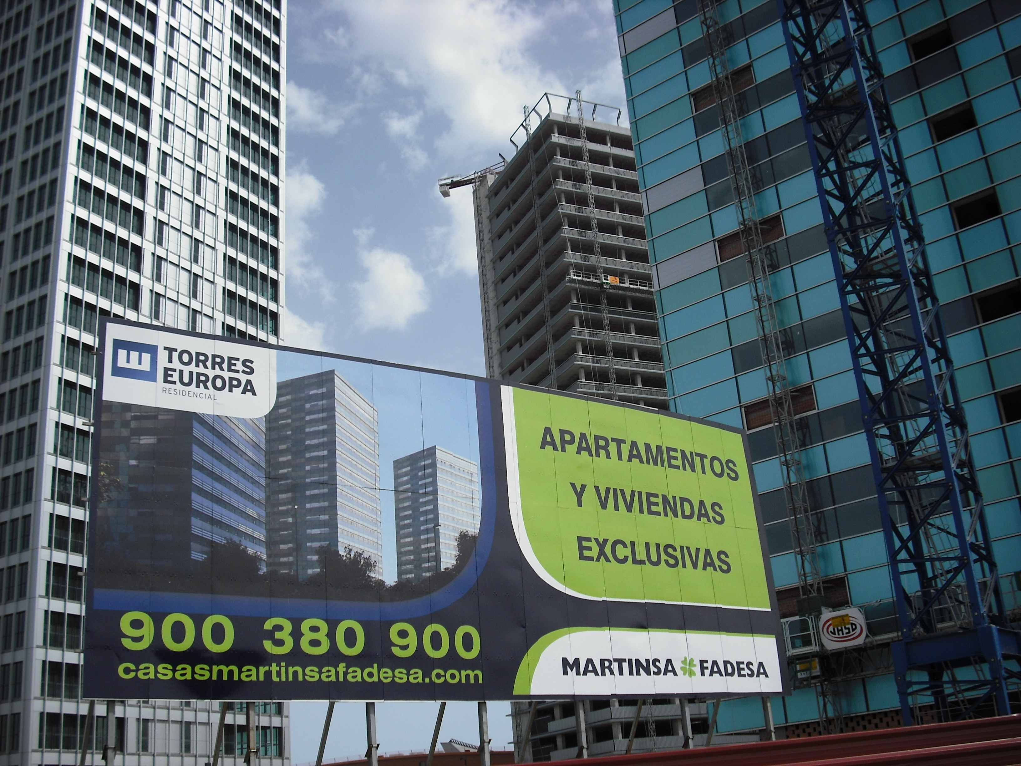 Buildings under contruction by Martinsa * Fadesa at Plaza Europa (L'Hospitalet de Llobregat).